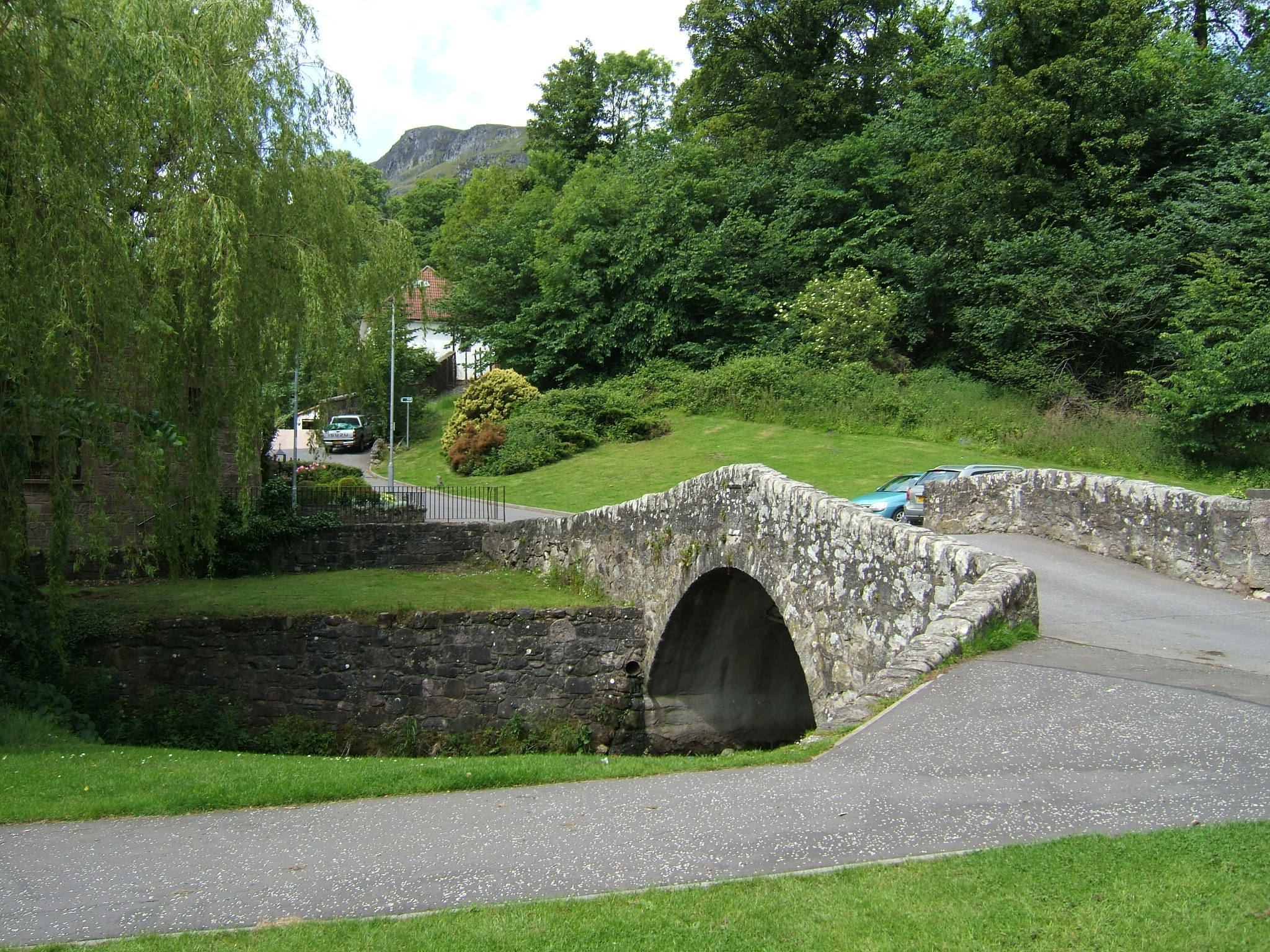 Taken from the Nova Scotia Gardens beside the Menstrie Burn looking towards Dumyat